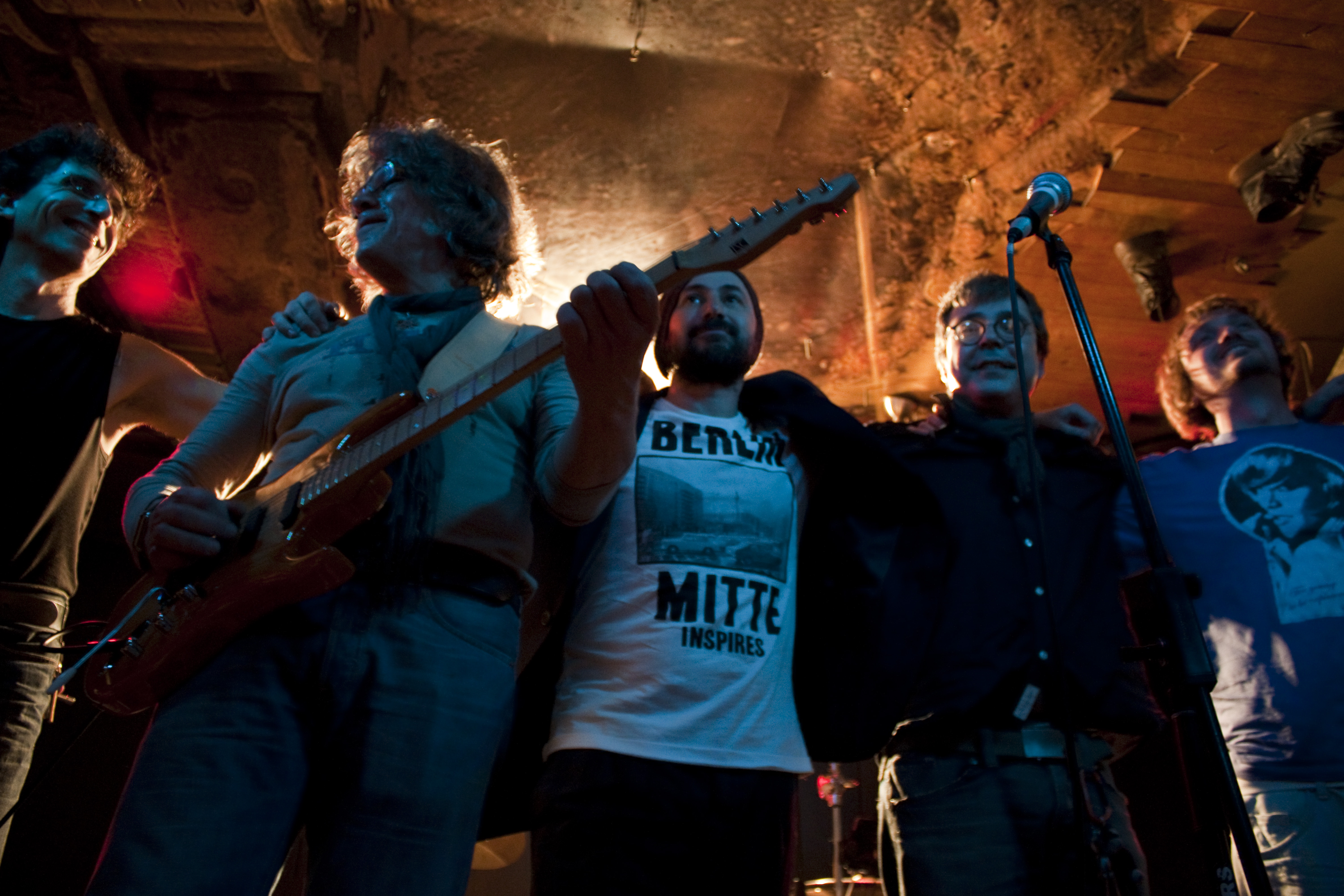 Stefan Valdobrev with his band The Usual Suspects (26 March 2012, Club Stroeja - Sofia, Bulgaria). Left to right: Stoyan Yankoulov, Ivan Lechev, Stefan Valdobrev, Vesselin Vesselinov (Eko), Miroslav Ivanov